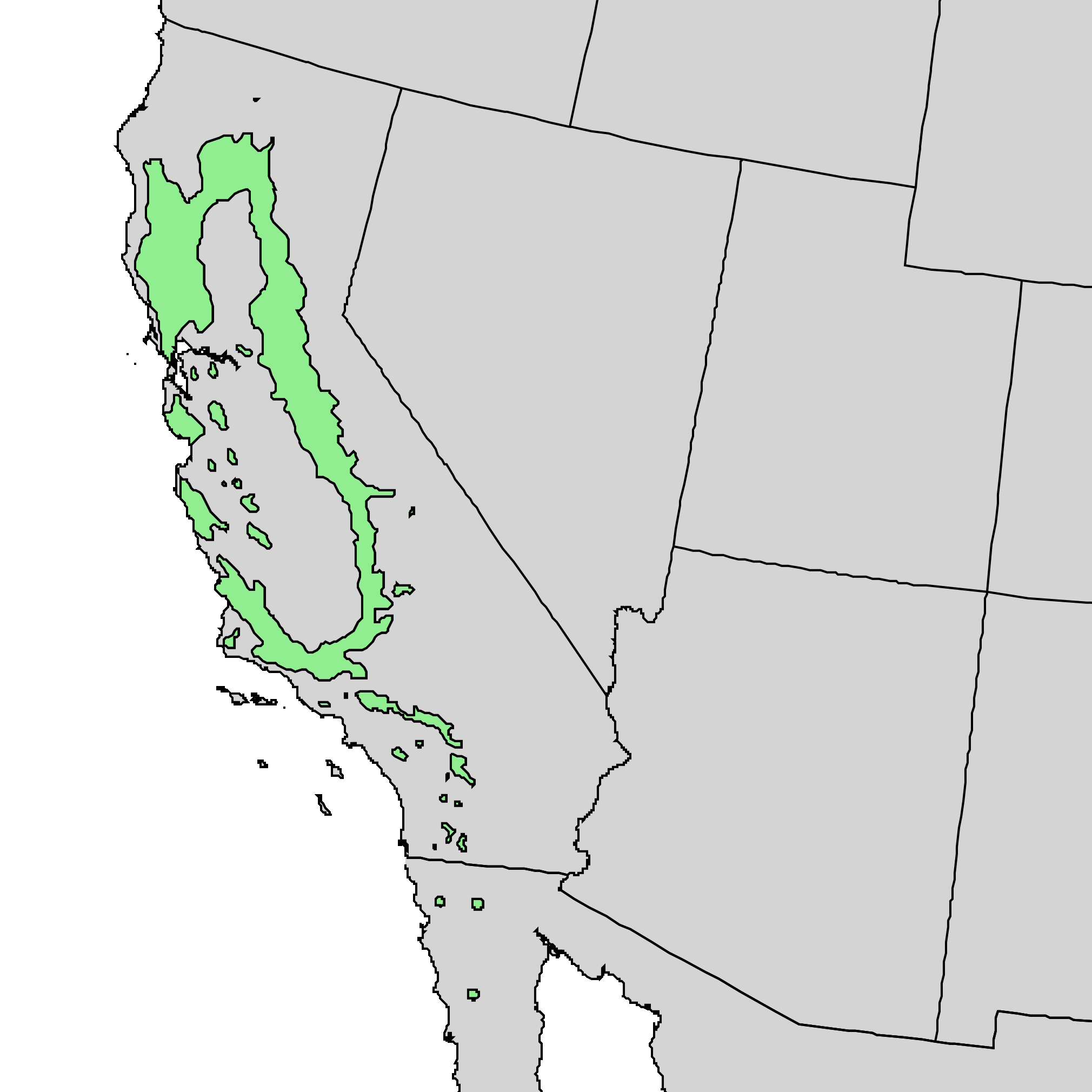 Range map of Quercus wislizeni — Interior live oak, Sierra live oak. In California and northern Baja California.